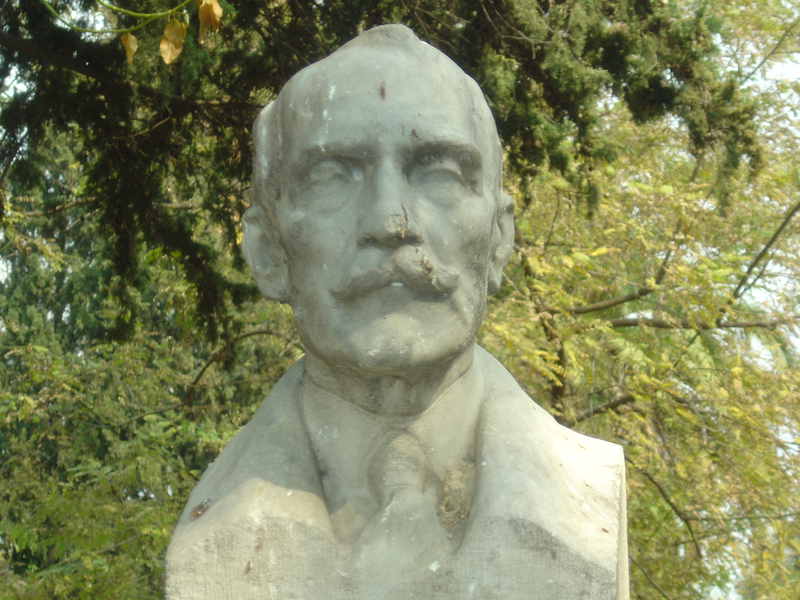 Ioannis Polemis bust, Greek poet, Athens